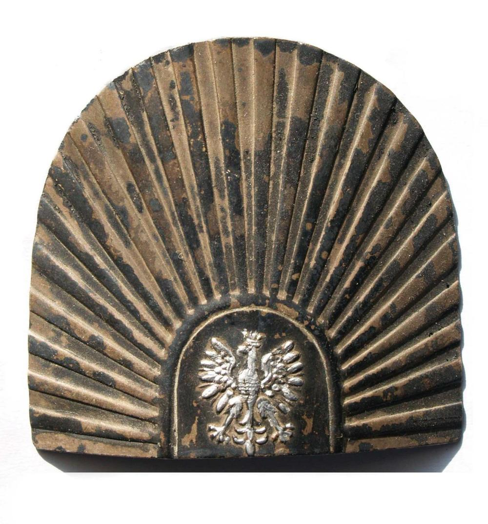 catet cap badge, Poland, befor 1939